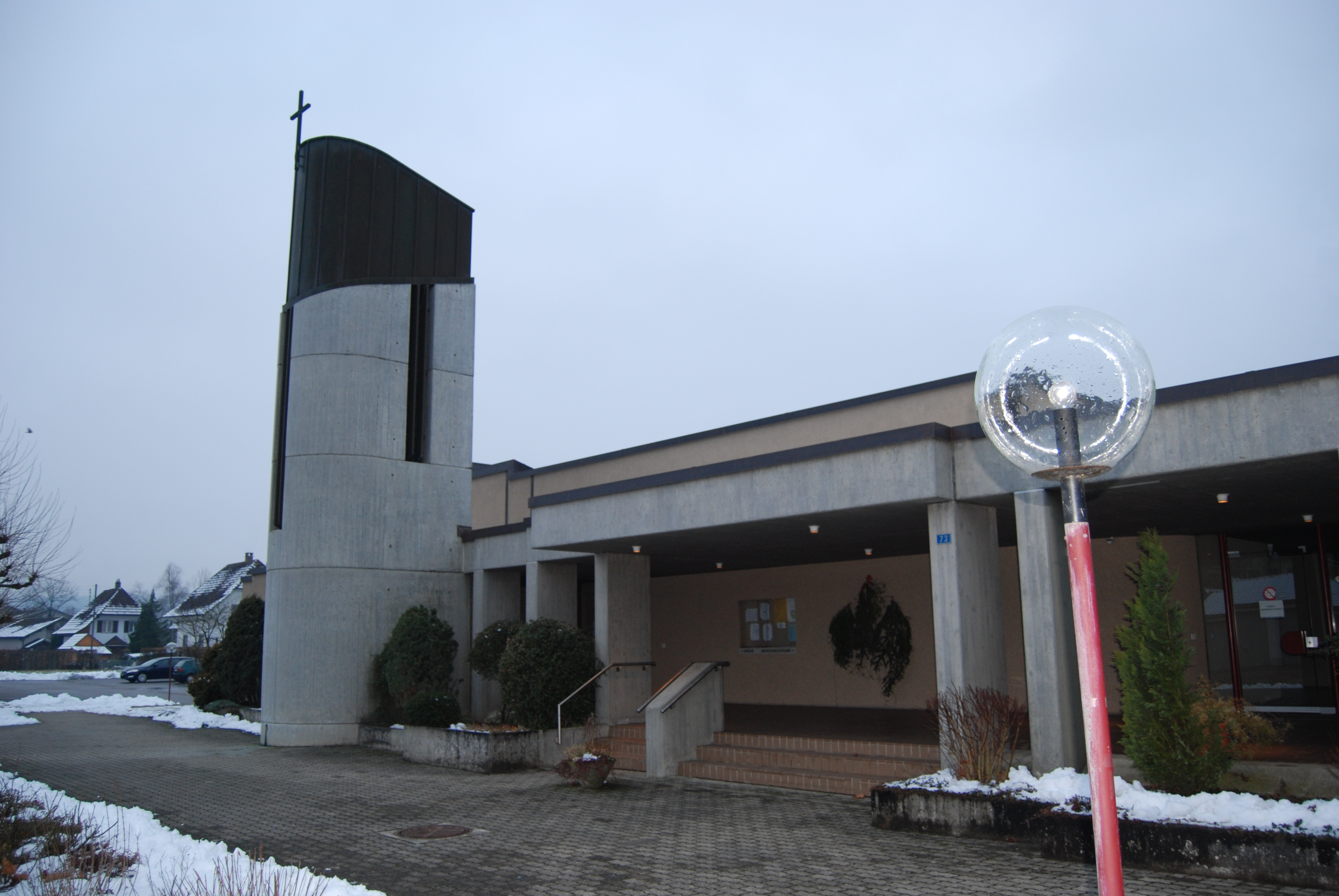 Church of the catholic community Langenthal at Roggwil, canton of Bern, Switzerland